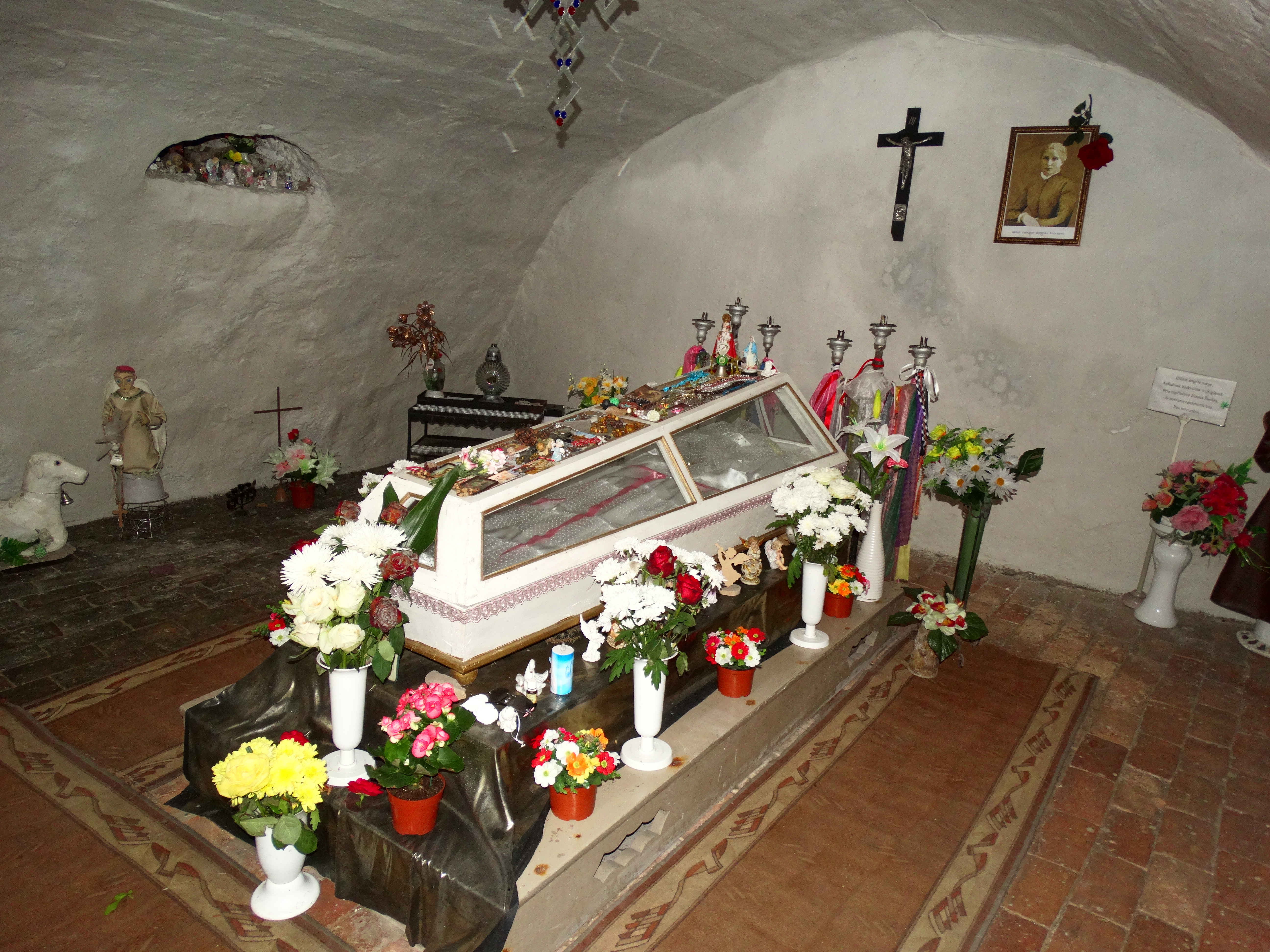 Crypt, 2-nd St. Peter and St. Paul's Church, Žagarė, Joniškis district, Lithuania